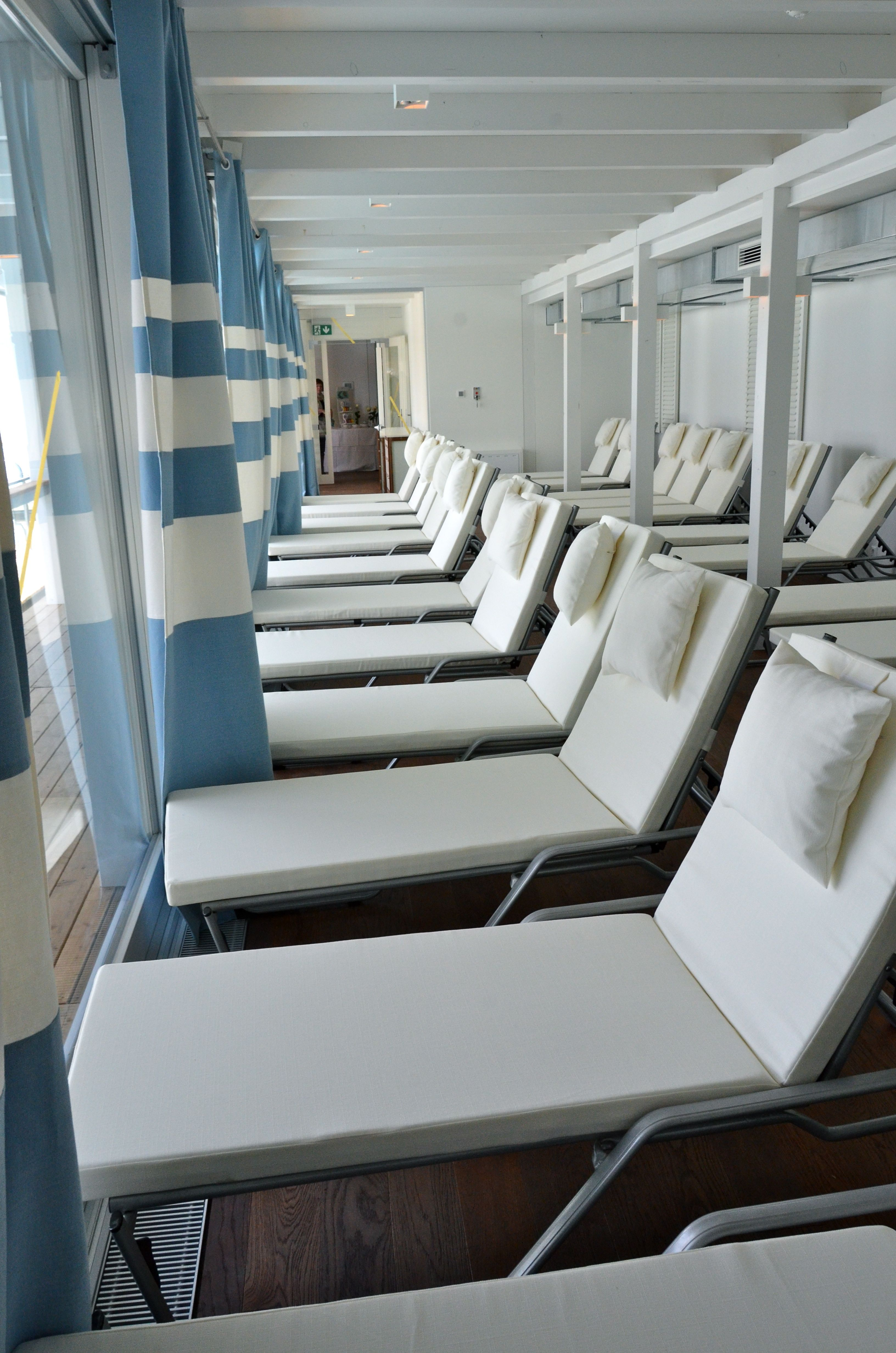 Rest area of the new Werzer-Bad, Werzer Strand #16, municipality Poertschach on the Lake Woerth, district Klagenfurt Land, Carinthia / Austria / EU